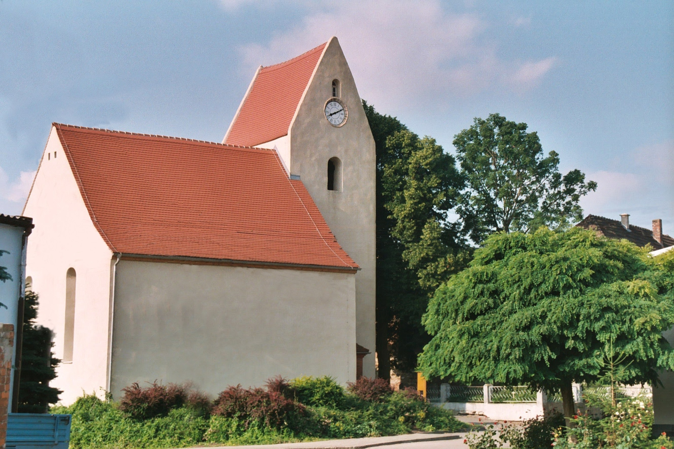 Tornitz (Barby), the village church St.Nicolai